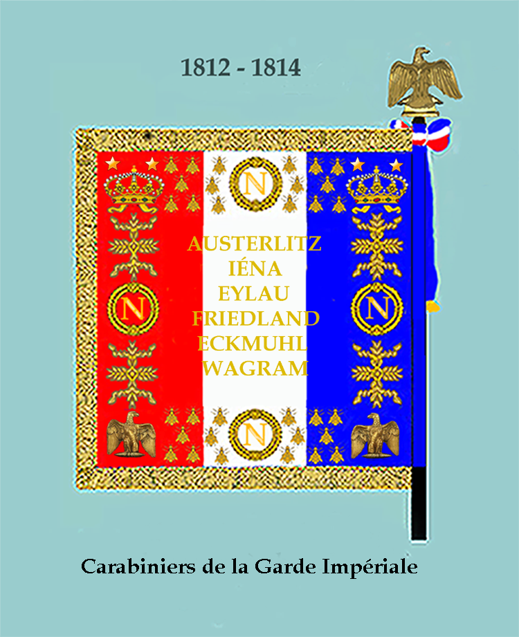 Colors of the French Carabiniers of the Imperial Guard (1812 - revers)